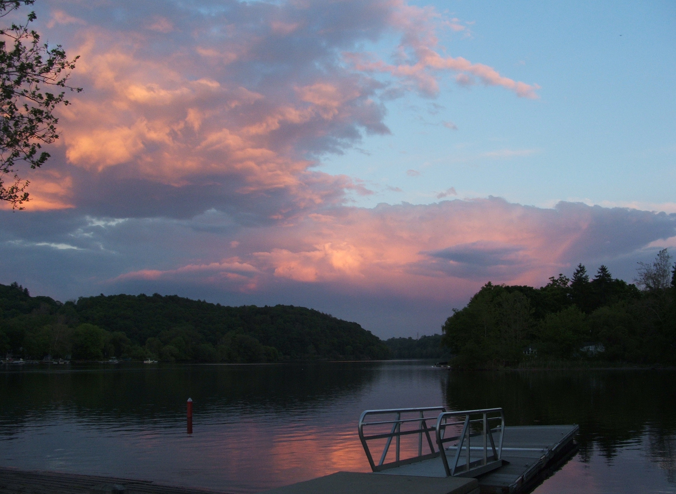 A view of Lake Housatonic from the boat launch at Indian Well State Park. Taken at sunset on Monday, May 30, 2006.